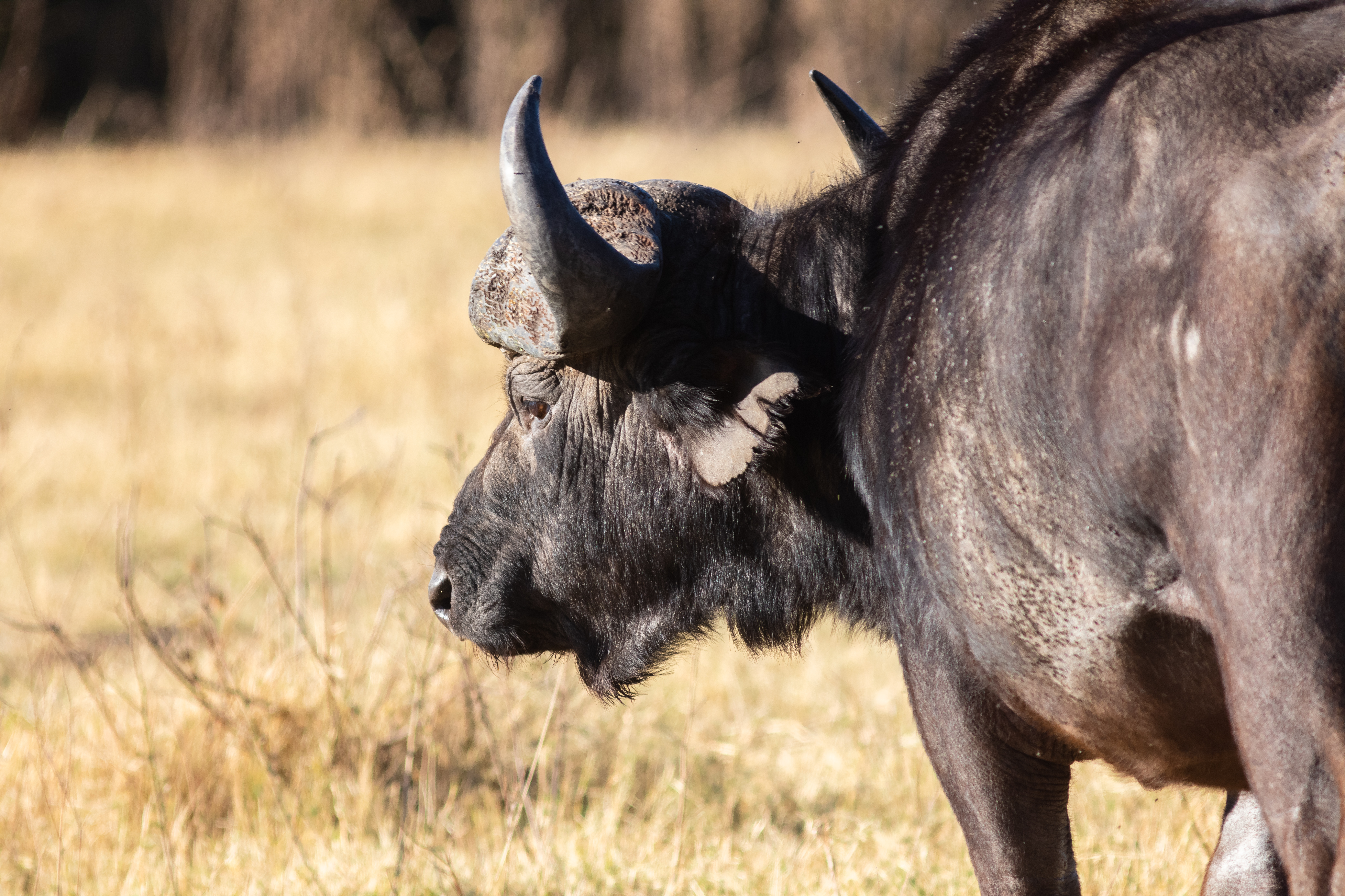 African buffalo (Syncerus caffer caffer), Chobe National Park, Botswana